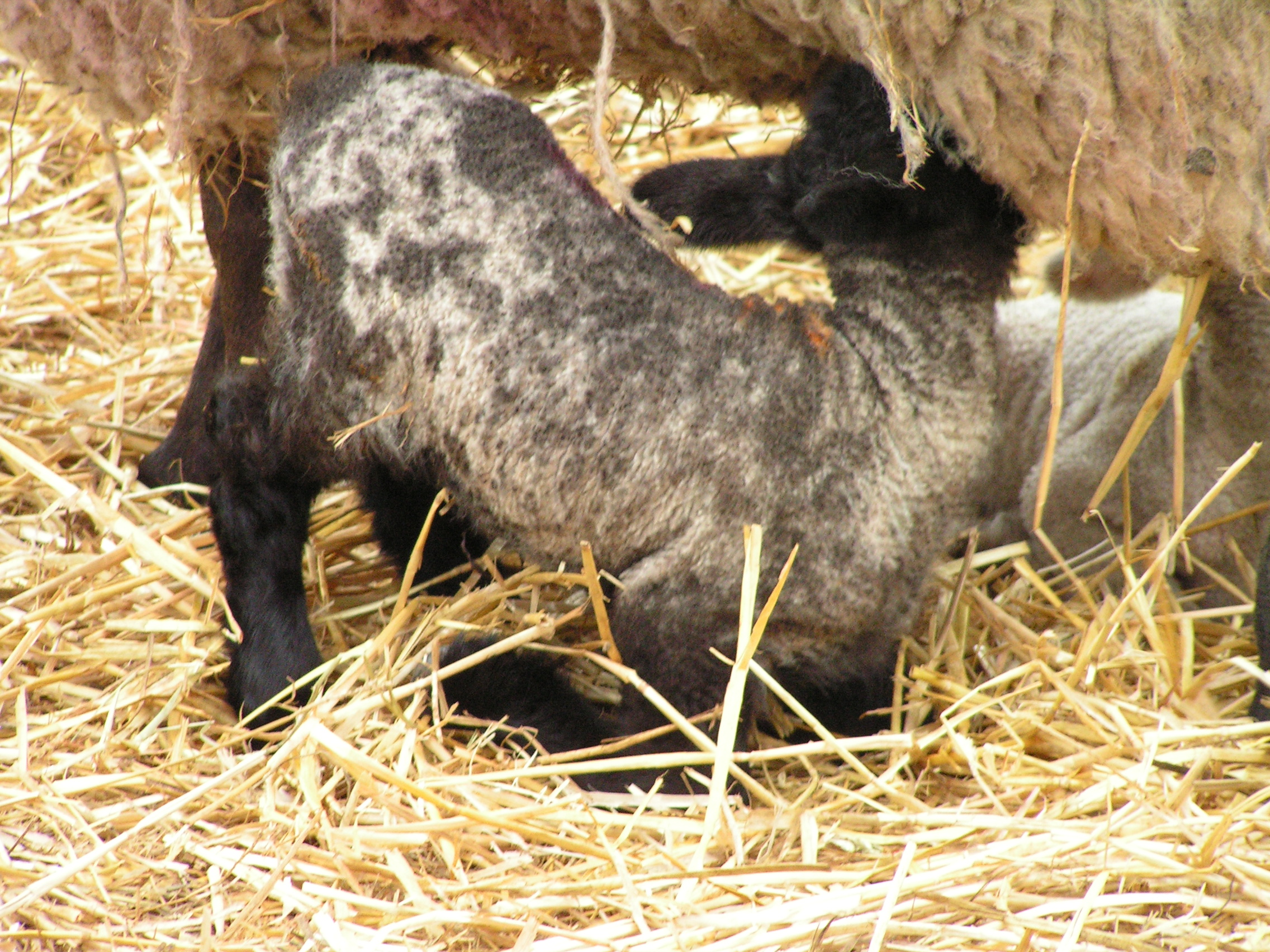 A lamb suckling from its mother.